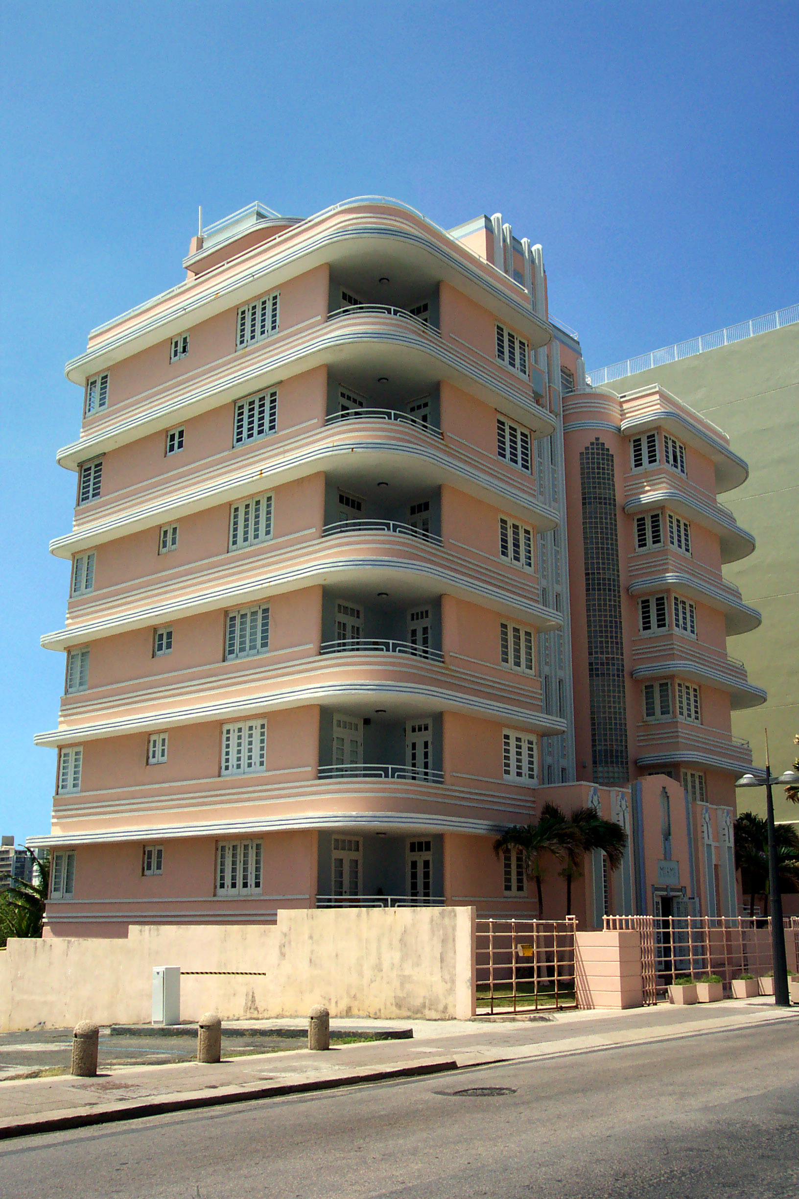 "Miami Building" or "Edificio Miami" built during the 1930's in art-deco style, designed by Ponce architect Pedro Méndez Mercado; as seen from Ashford Avenue in Condado (Puerto Rico).